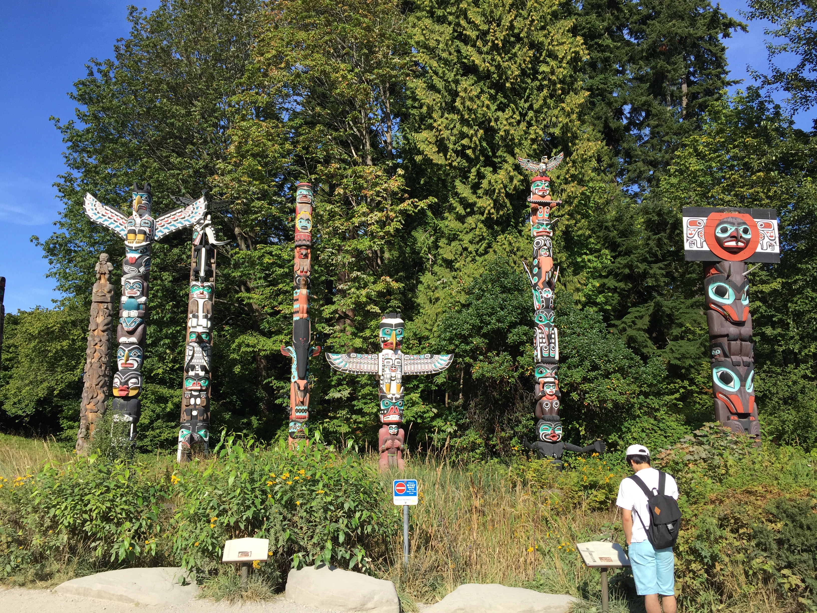 Image of the famous totem poles in Vancouver's Stanley Park, taken in August 2016